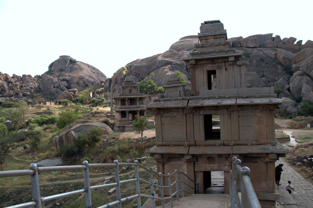 Fortress & Temples on the hill